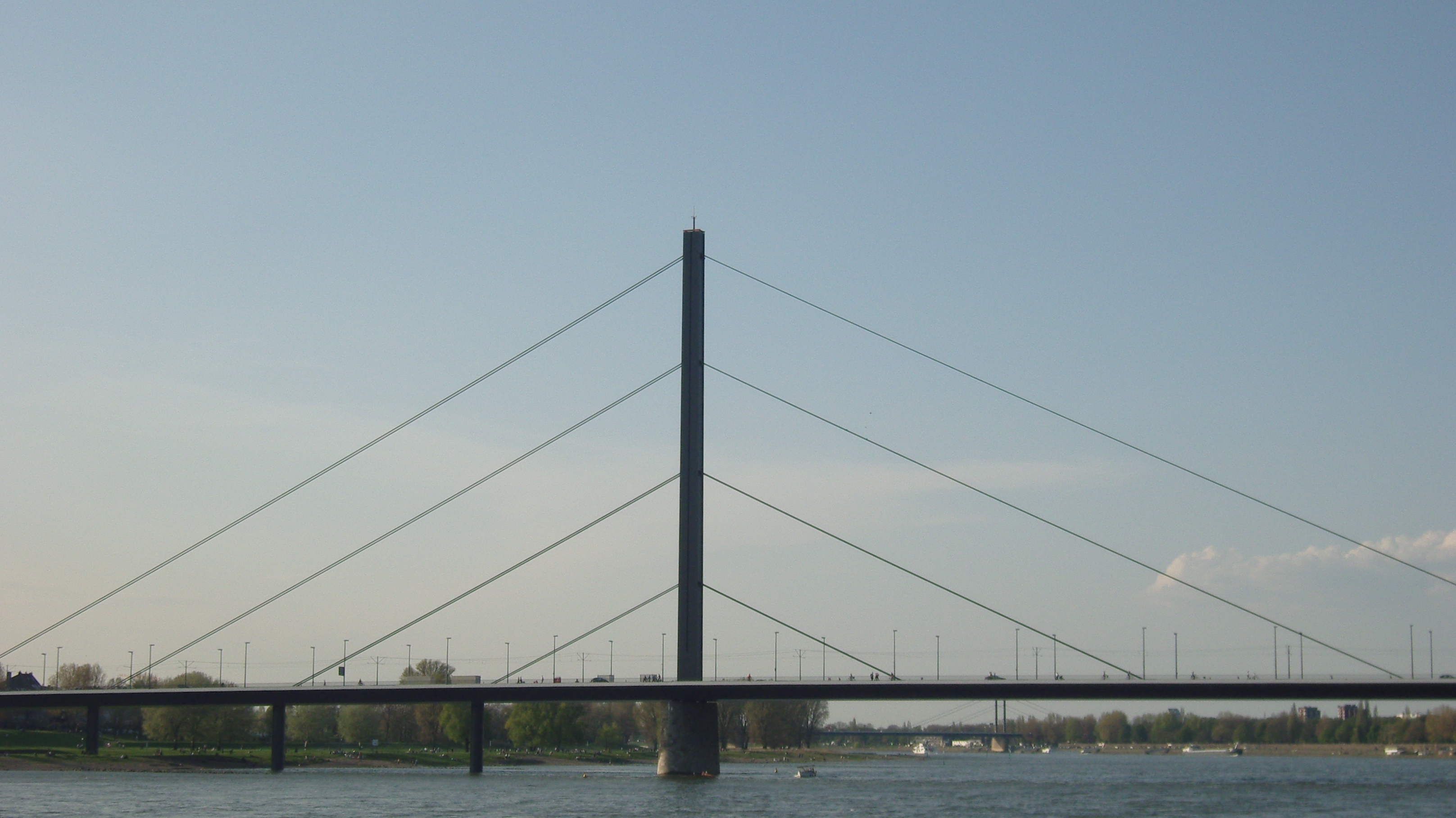 One of the many bridges crossing the Rhine here in Düsseldorf. I liked how the design is minimal. More then many bridges of this type.